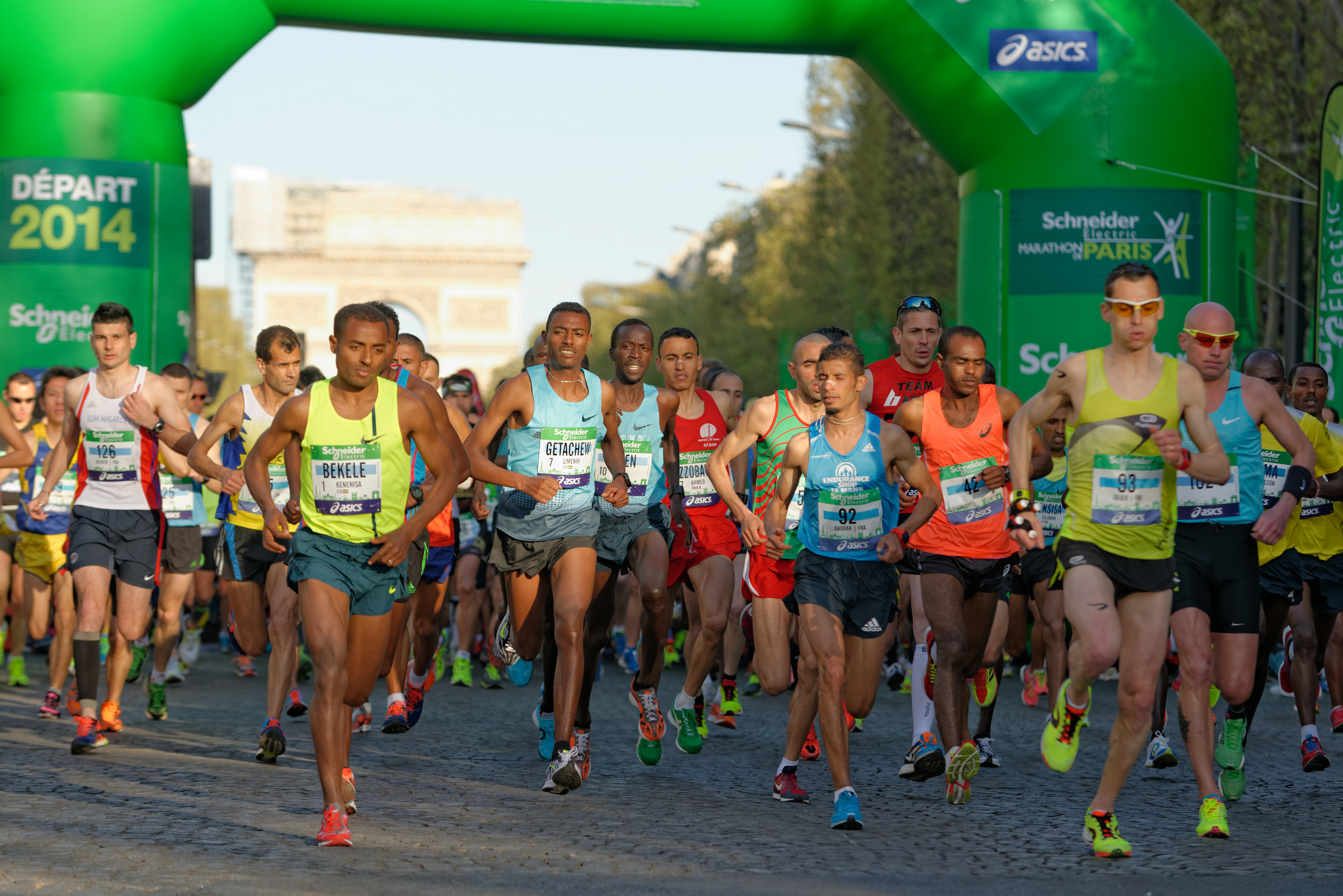 Start of the 2014 Paris Marathon.